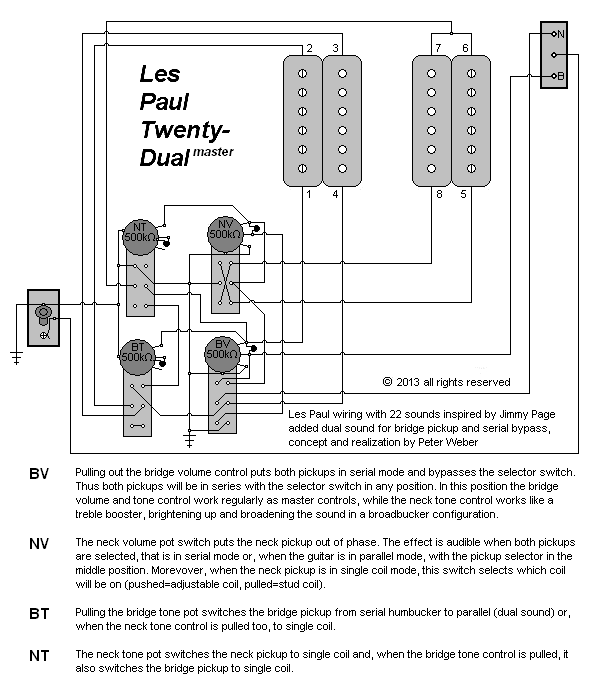 Modified guitar wiring scheme for a Les Paul. This wiring scheme is a recent evolution from the famous Jimmy-Page-wiring using four push-pull-pots to allow 21 different pick-up combinations. The Twenty-Dual adds one more, including a parallel-wiring for the bridge-pickup (dual-sound), as well as a number of other useful features such as a bypass for the serial combinations and a tone-control (NT) that can be used as a treble booster in a so-called broadbucker-configuration.